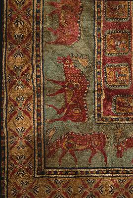 The most ancient carpet in the world. Found at Pazyryk and dated to ca. 400 BC. On exhibit at the Hermitage Museum.